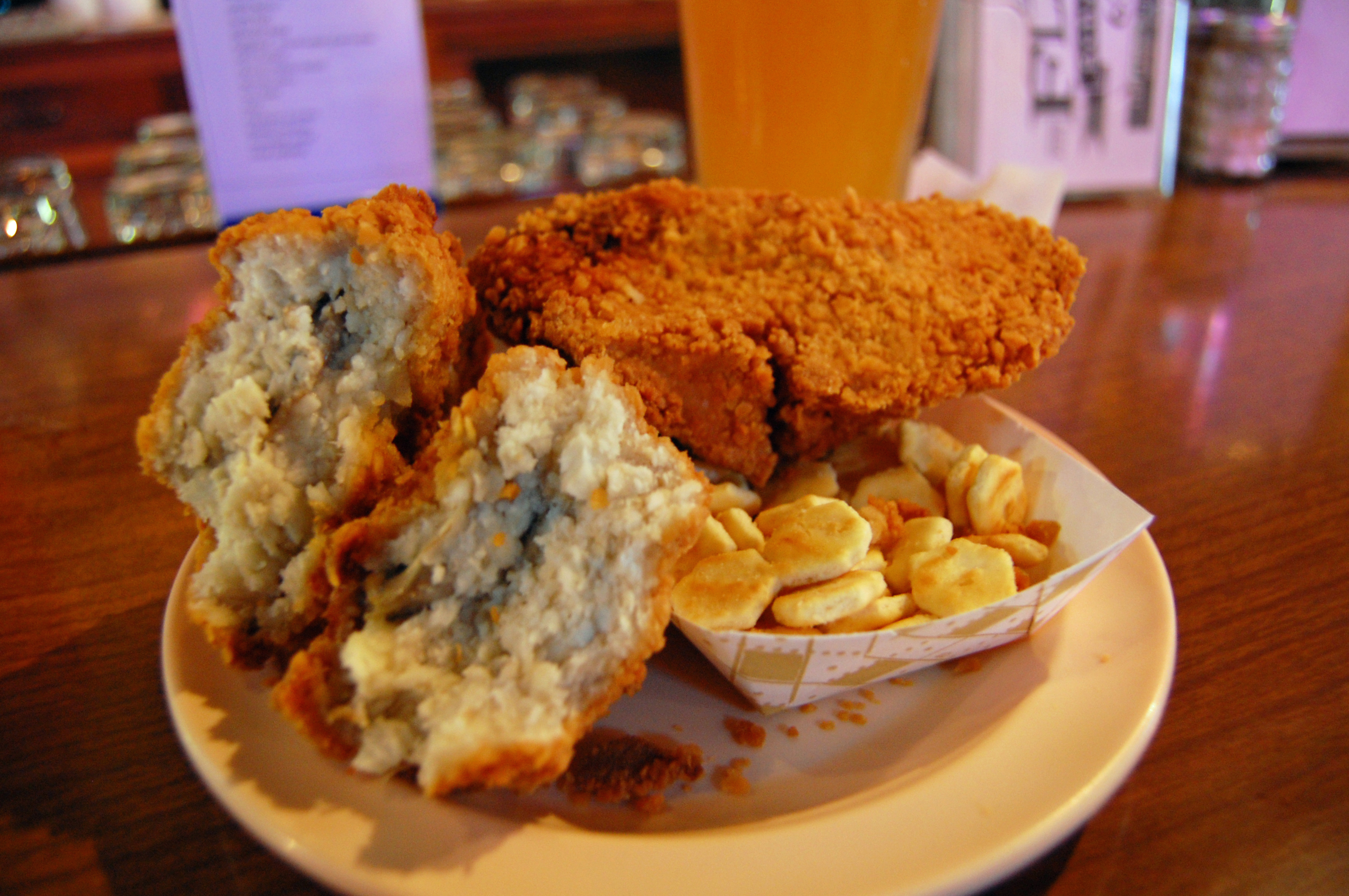 A rolled oyster is a baseball-sized seafood dish that is found only in and around Louisville, Kentucky. It consists of three raw oysters dipped in an egg-milk cornmeal batter called pastinga, rolled in cracker crumbs (hence the name), and deep fried. This version was photographed at Flabby's Cafe, Louisville, KY, USA.